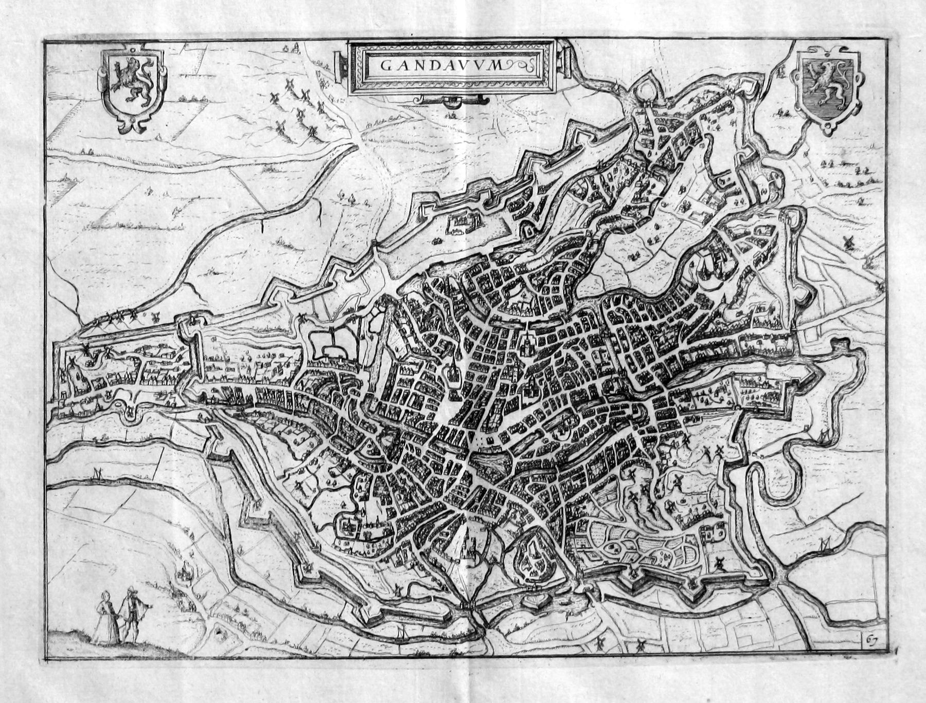 Map of Ghent, L. Guicciardini - Description de touts les Pays-Bas. - Amsterdam, 1625